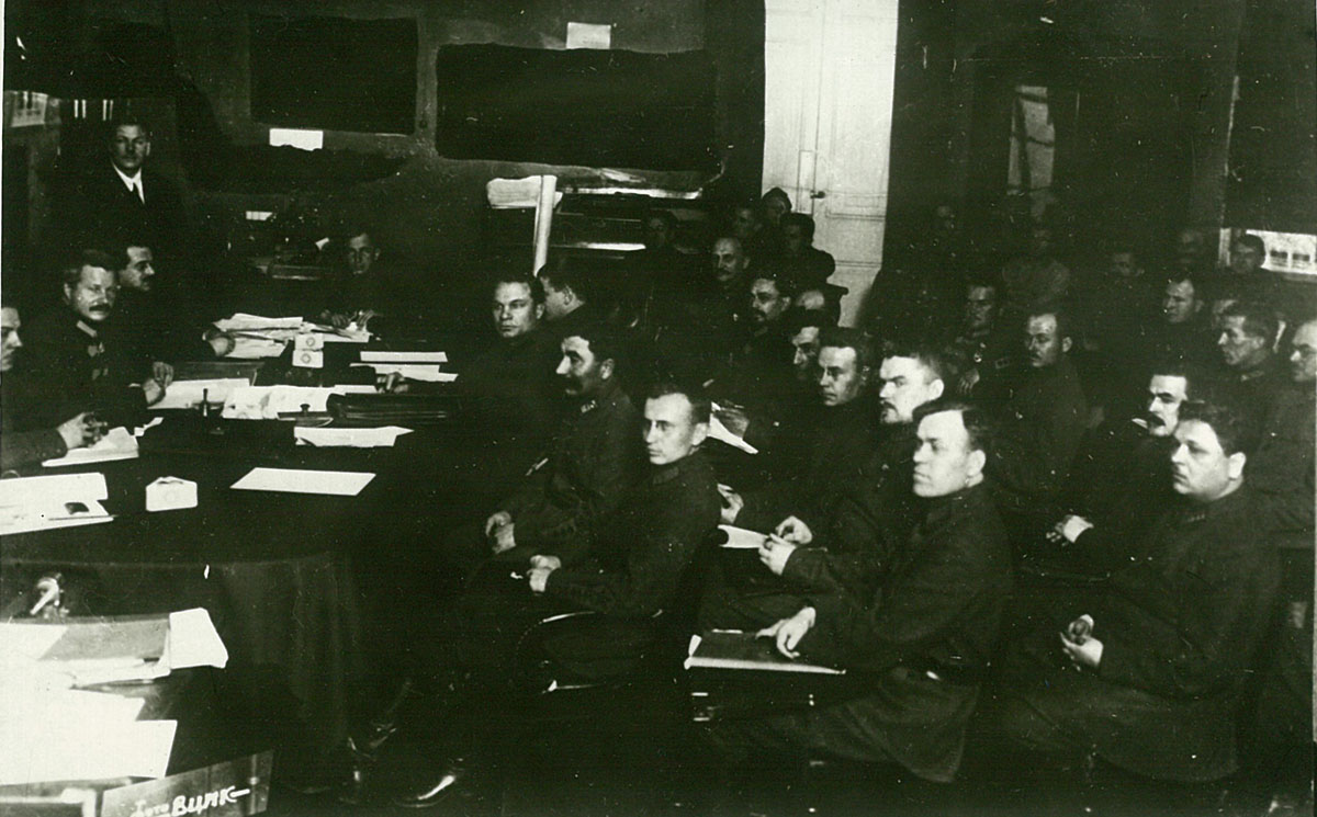 Meeting with the commanders Revolutionary Military Council. November 1924